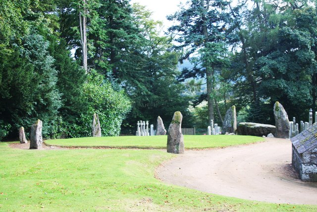 Midmar Stone Circle Part of the churchyard, the circle was tidied up in 1914 when the graveyard was laid out. At 4.5 metres the recumbent stone weighs around 20 ton!